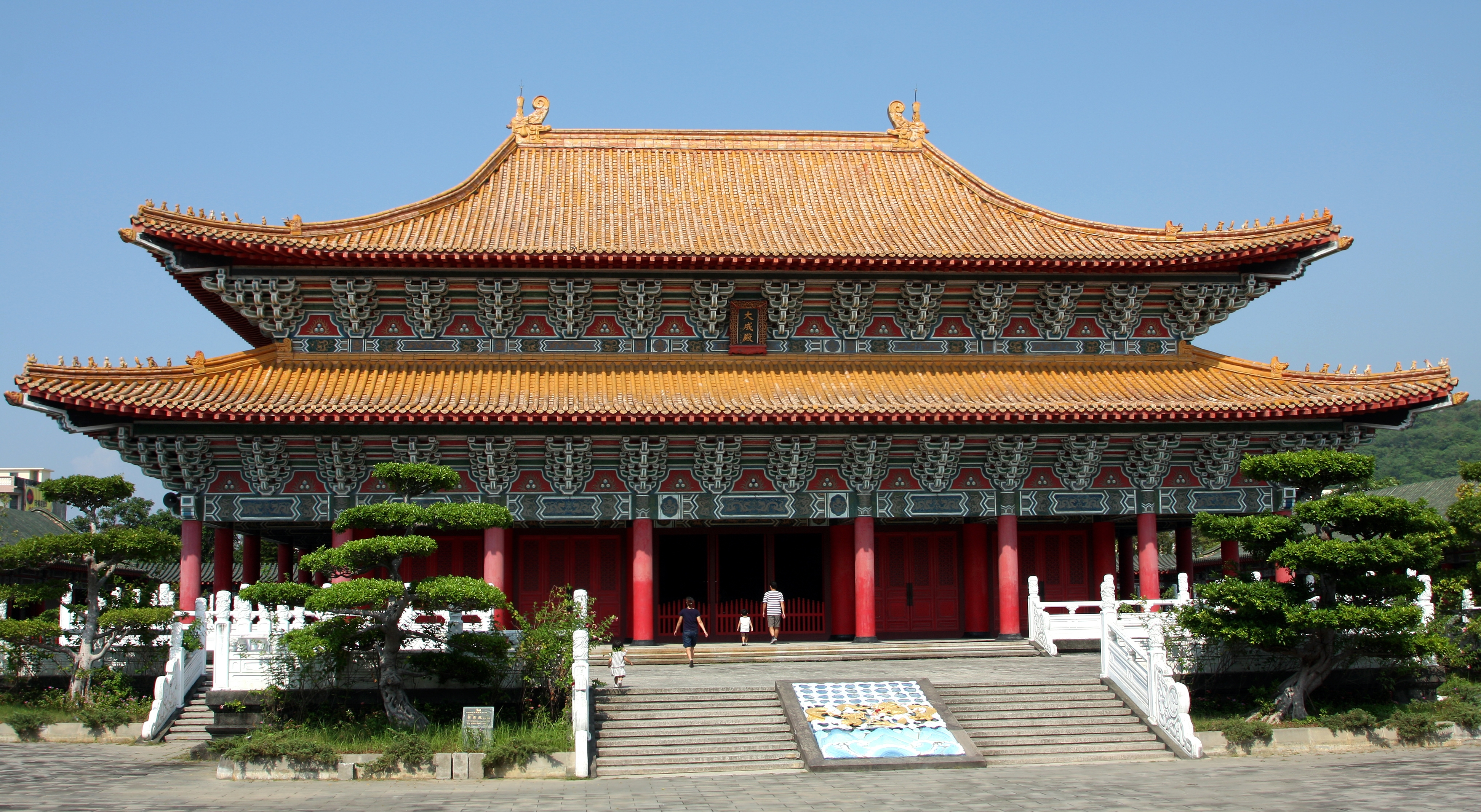 Confucius Temple at the Lotus Lake in Kaohsiung (Taiwan)